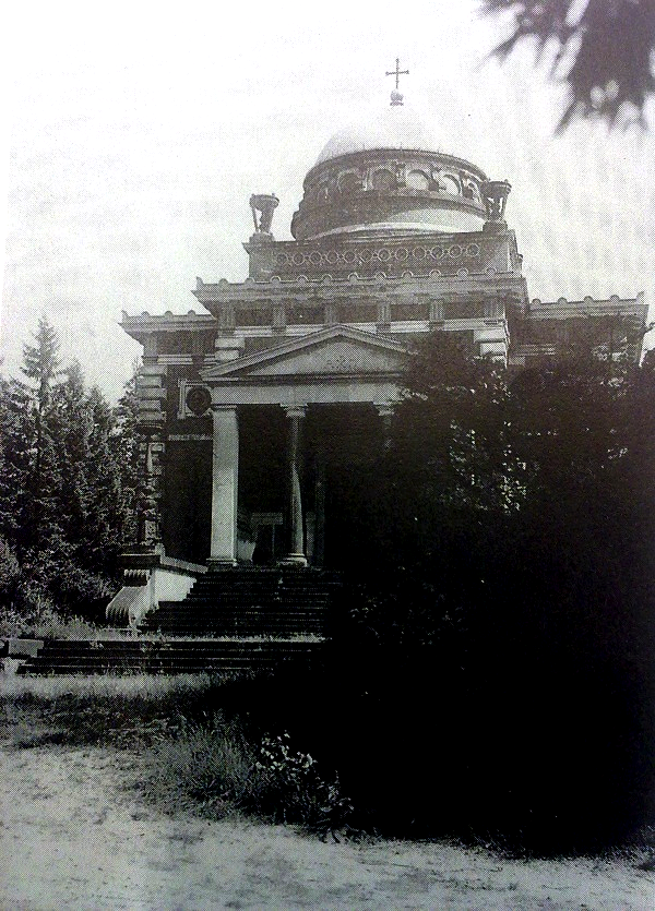 Mausoleum of Hermann Killisch-Horn (1821–1886) in Reuthen, Province of Brandenburg, Prussia, circa 1900